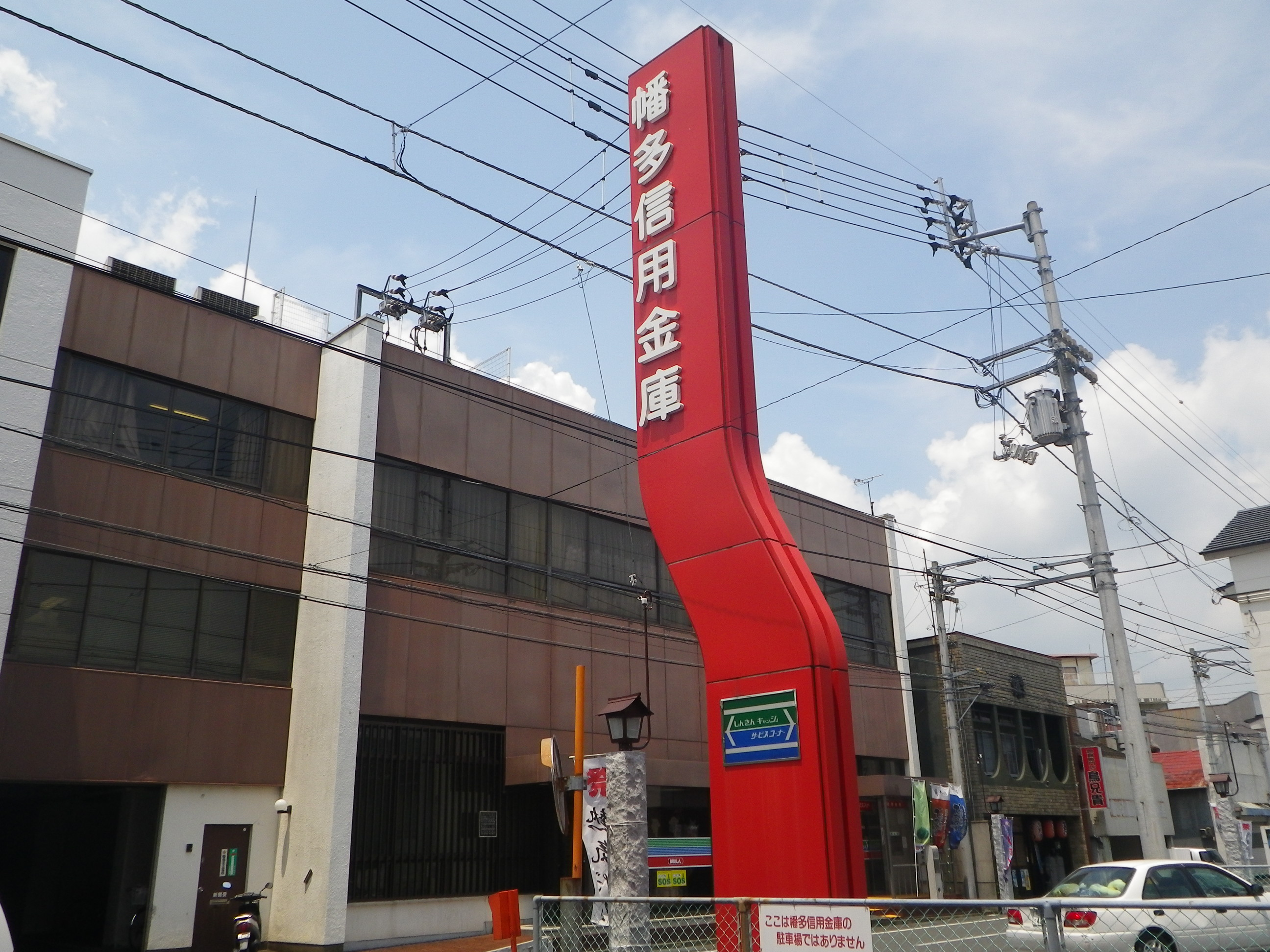 Hata shinyokinko bank